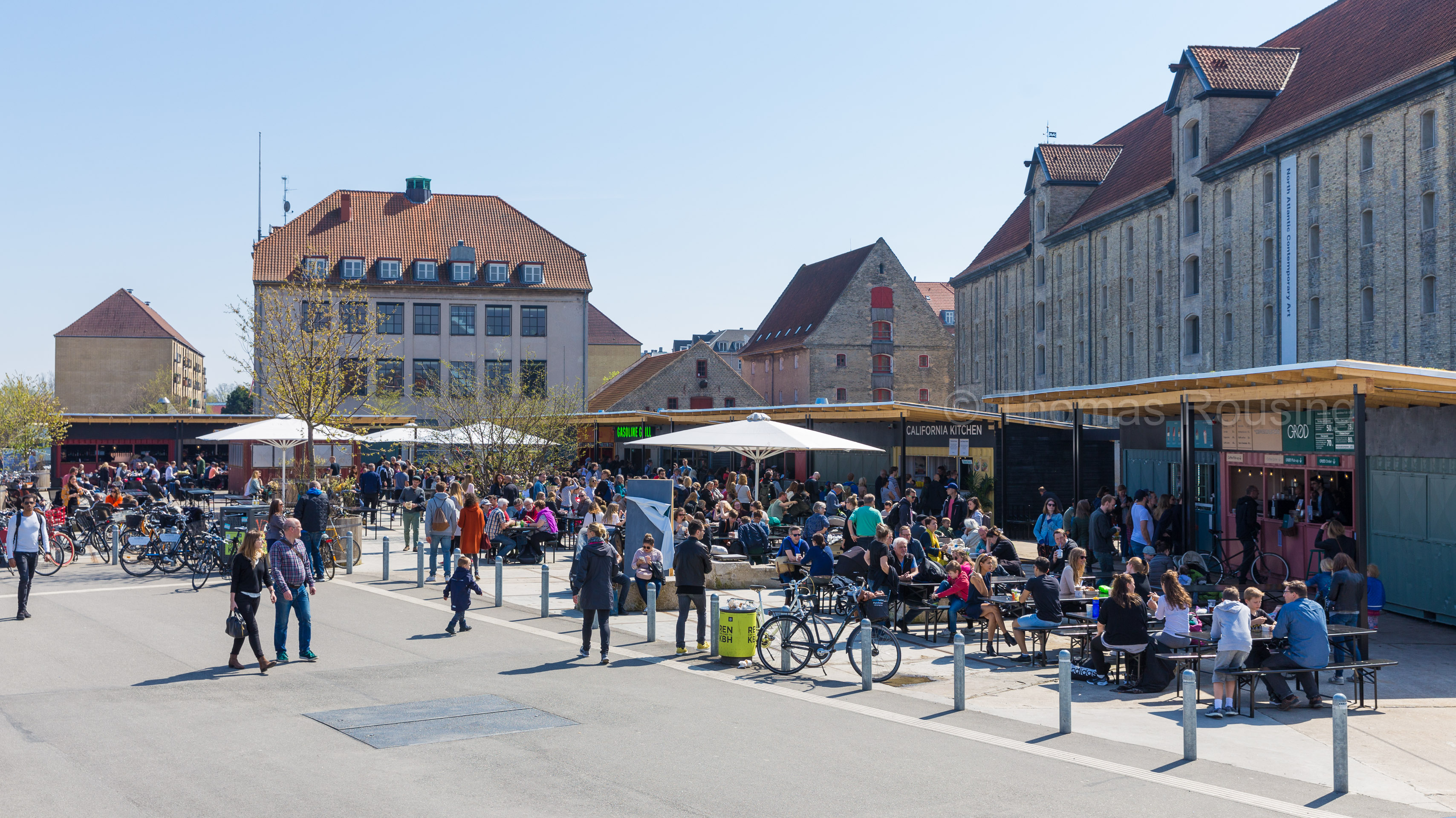 Please observe the license on this photo before use - Contact me if you would like to use this photo without the watermark. Click here for e-mail or contact me through Flickr mail. You can also visit my other sites, for more photography. My squares at Instagram My page at Facebook My cool website Copenhagen based photographer Thomas Rousing excels in many types of photography like Citylife and Architecture | Portrait and Family | Wedding and Confirmation | Maternity and Baby | Concerts and Events | Food and Lifestyle. Contact photographer Thomas Rousing here.